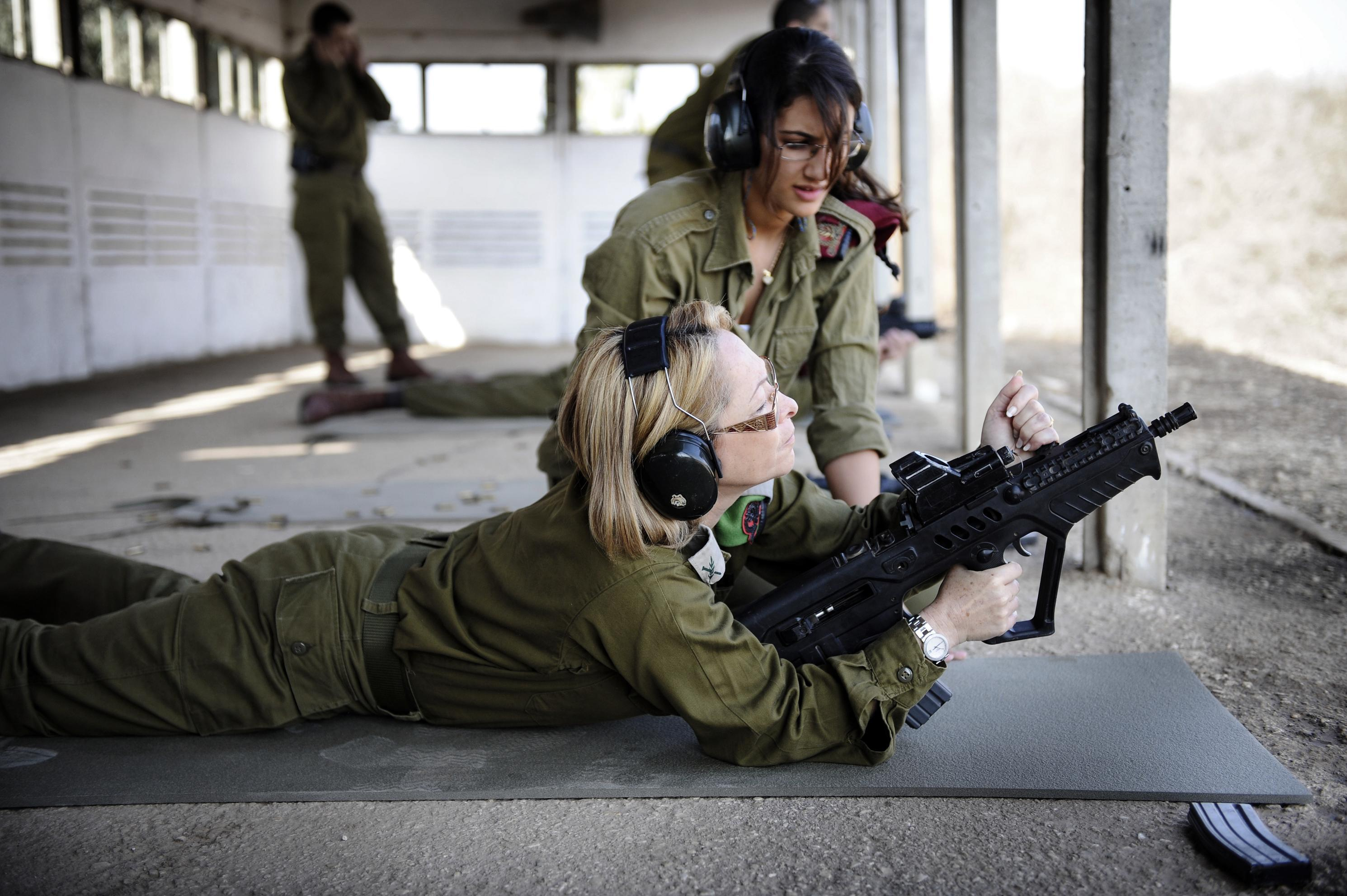 November, 2010. Pictured here in the Mitkan Adam base, the Women's Affairs Advisor to the IDF Chief of Staff, Brigadier General Gila Kalifi-Amir, practices her marksmanship skills with the guidance of a Marksmanship Instructor during an event for IDF staff officers. The Women's Affairs Advisor to the Chief of Staff is responsible for addressing the unique needs and successful integration of female soldiers into the IDF. She heads the Women's Affairs Advisor unit whose responsibilities include: research, information and advocacy for women serving in the IDF, professional guidance regarding women's affairs, and the representation of the IDF's female soldiers to the media and to the general public. For more information on women in the IDF: Photography: Cpl. Ori Shifrin, IDF Spokesperson's Unit Featured as Photo of the Day on March 8, 2011 (International Women's Day)